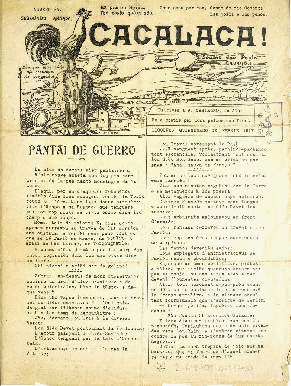 First page of the Occitan newspaper "Cacalacà"